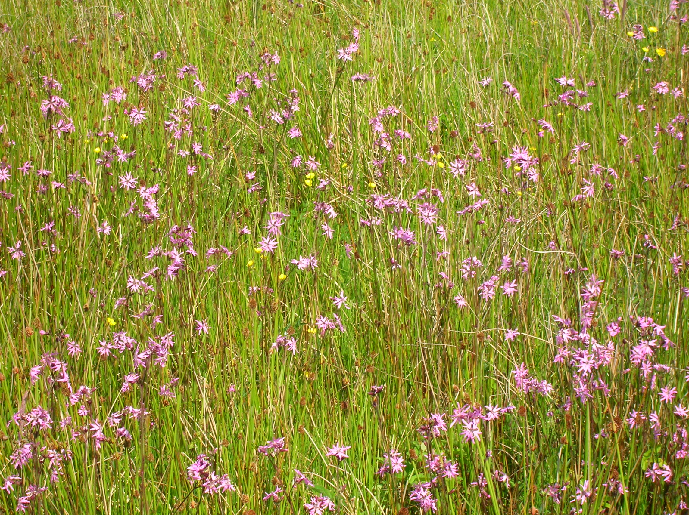 Ragged Robin (Lychnis flos-cuculi). Eglinton. North Ayrshire. Scotland.